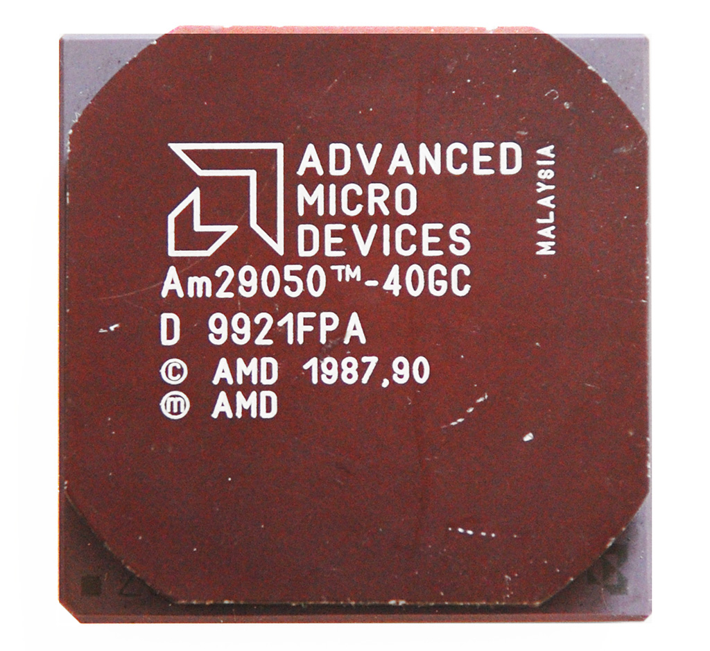 AMD Am29050-40GC embedded 32-bit RISC microprocessor